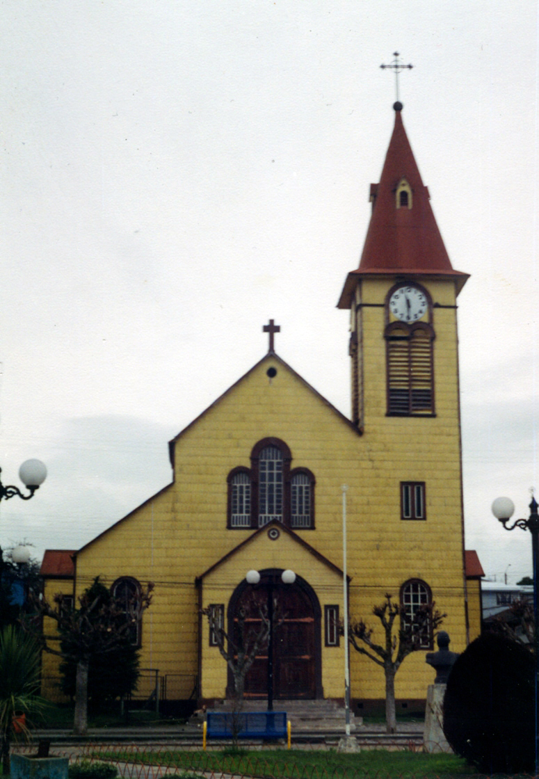 Church of Saint Michael Archangel of Calbuco